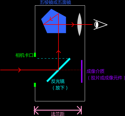 a simple mechanism of a DSLR